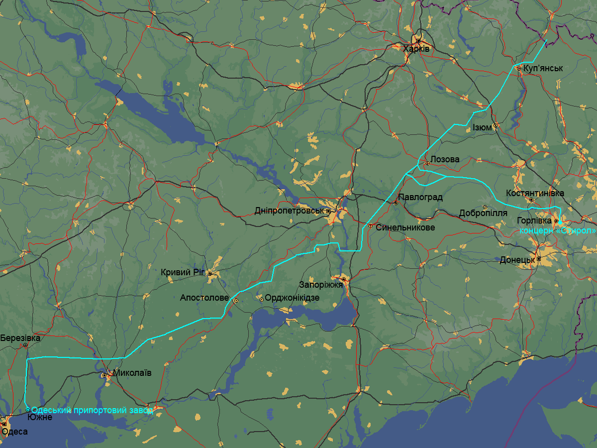 схема